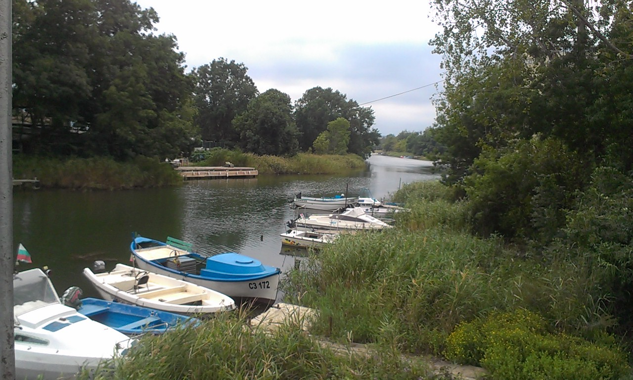 Harbor on Dyavolska River in Primorsko